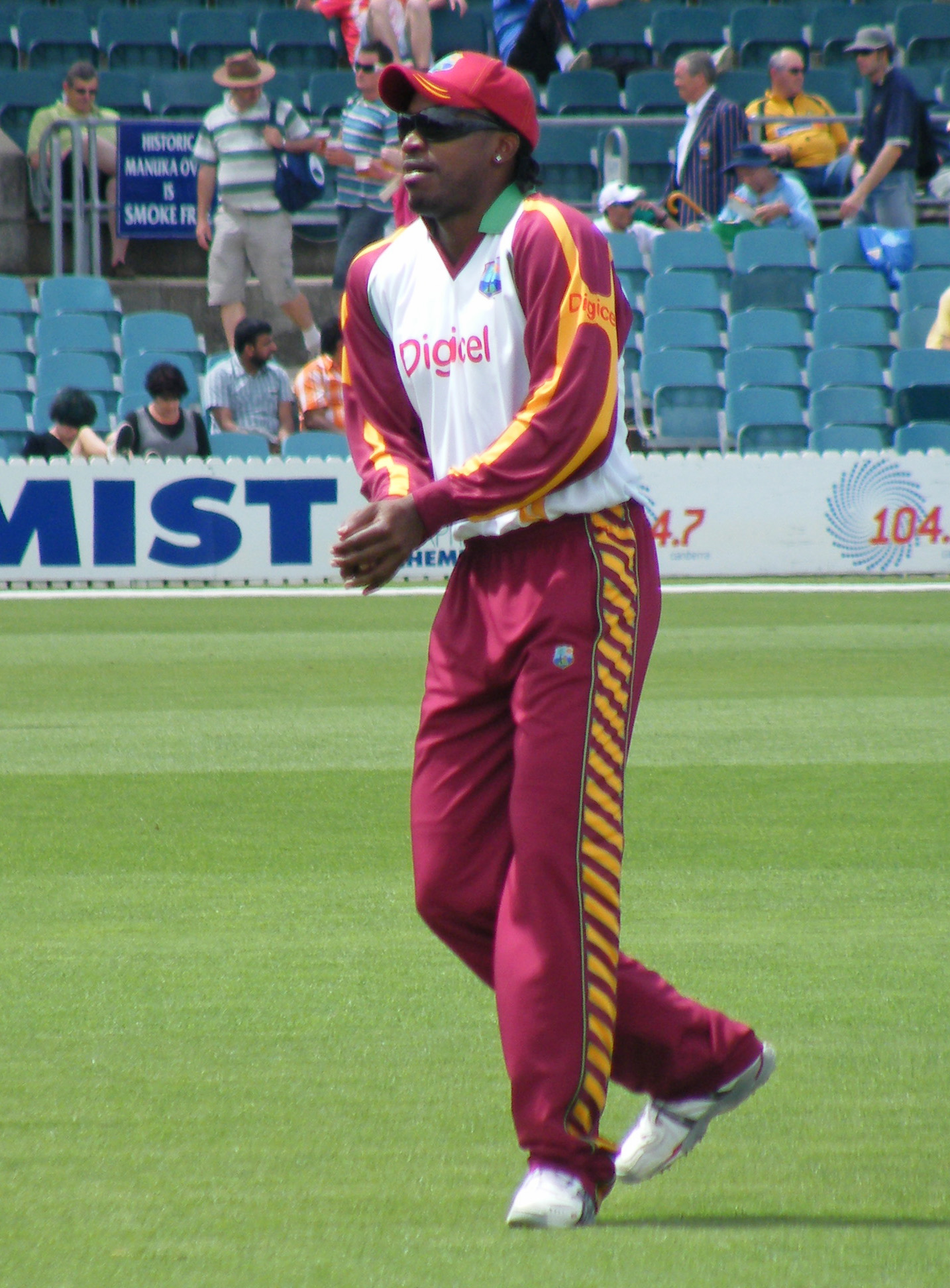 Chris Gayle at the Prime Ministers 11 Cricket match in Canberra 2010.